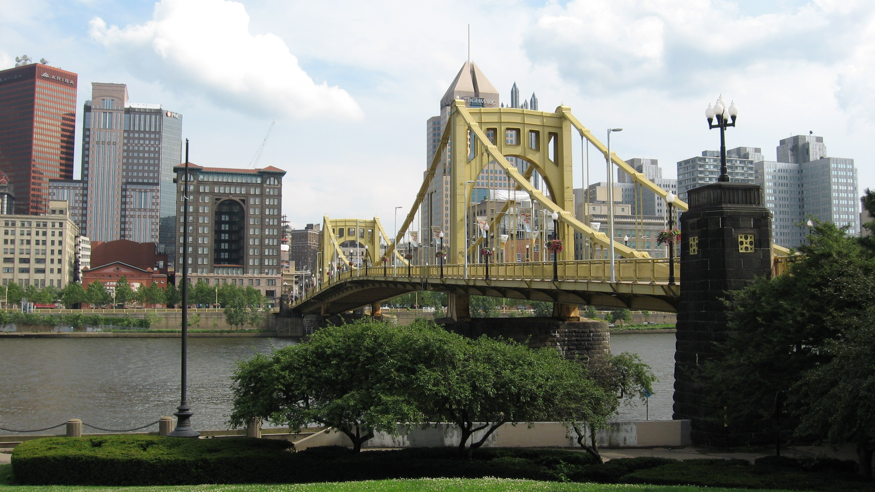 The Roberto Clemente Bridge in Pittsburgh, Pennsylvania. Photo taken from the North Shore with Downtown Pittsburgh in the background.40°26′43.9″N 80°0′11.8″W / 40.445528°N 80.003278°W